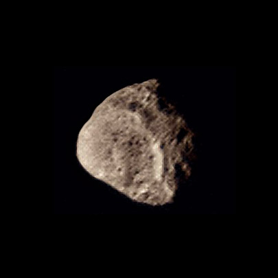 Color view of Hyperion captured by Voyager 1